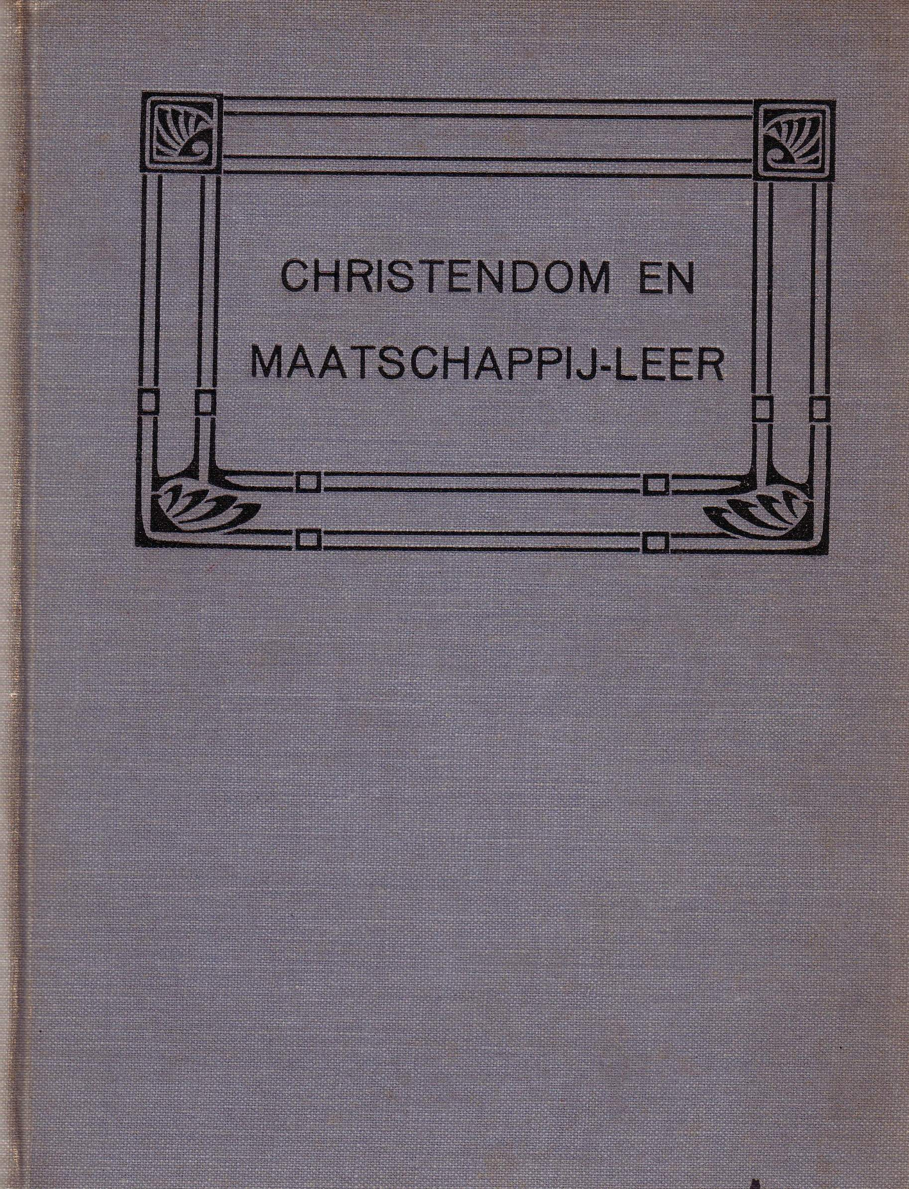 old book cover, Martin von Nathusius